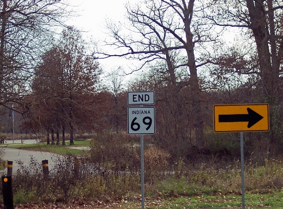 Southern Terminus of Indiana State Road 69 near Hovey Lake Fish and Wildlife Area in Posey County.